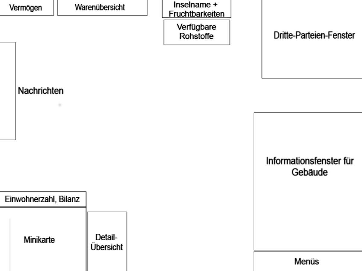 Interface of the Video Game Anno 1404